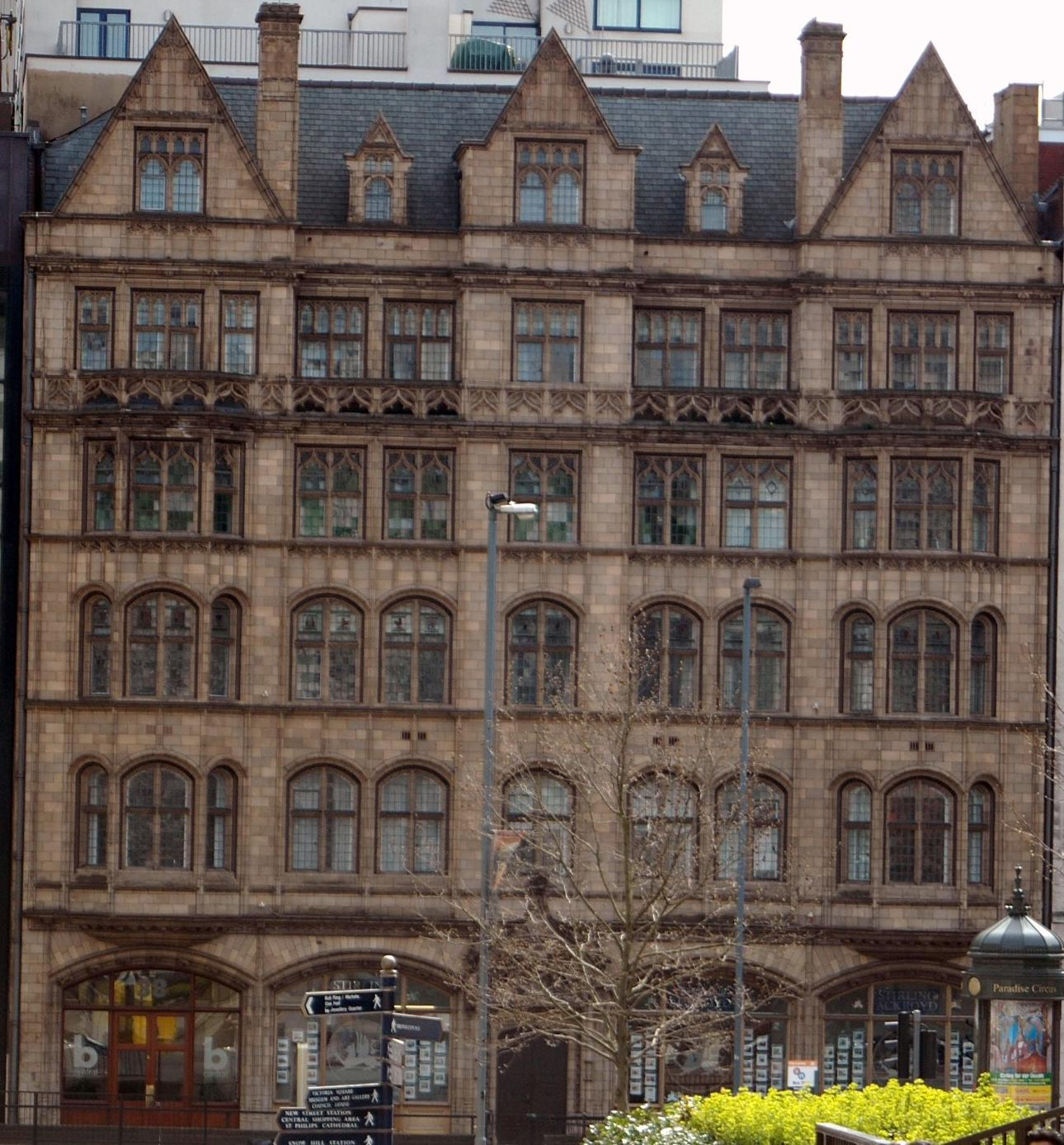 This is Queens College on Paradise Street, Birmingham, England. It is now defunct and has moved to Edgbaston.